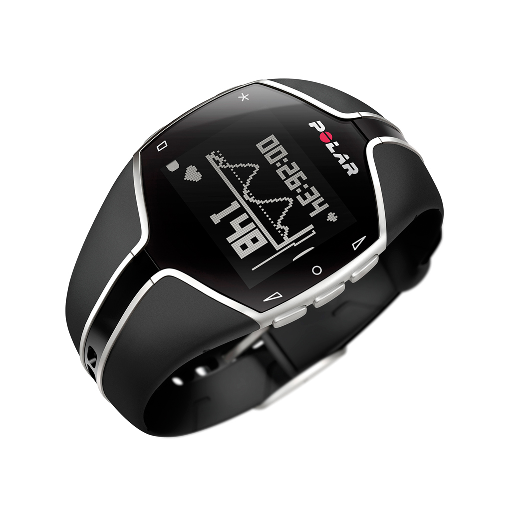 Polar FT80 product image